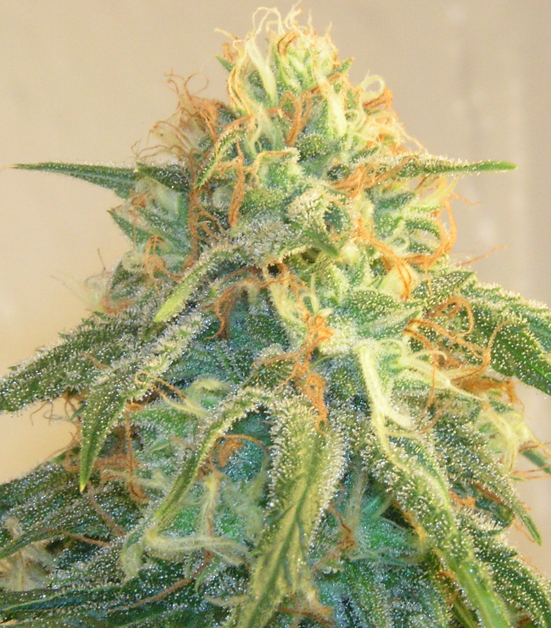 The top bud of a super silver haze plant. This strain in particular is a Sativa indica Stabilized hybrid consisting of Skunk, Northern Lights, and Haze stabilized in Switzerland by Mr. Nice Seed Bank